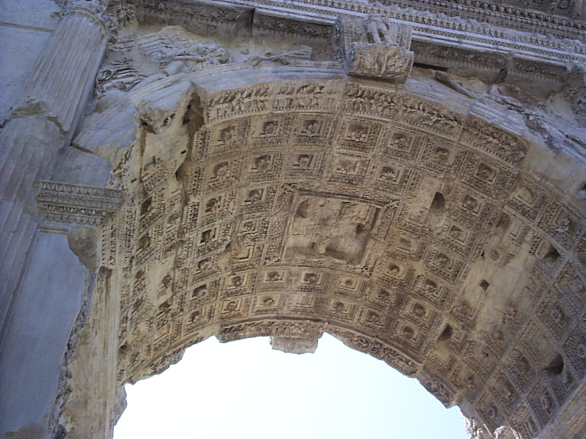 Arch of Titus: Detail of the inner stonework design.